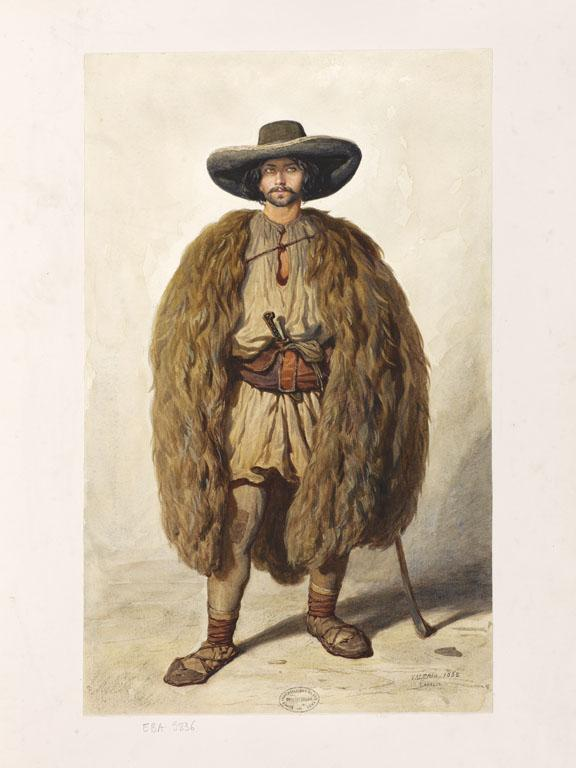 Théodore Valerio, Romanian shepherd from Zăbalț, 1852 FNAC PFH-8798 (65). Crayon et aquarelle sur papier, 45,4 cm x 27,9 cm Daté, signé en bas à droite : VALERIO 1852 SABALCZ En dépôt à l’ENSBA depuis 1869 Beaux-Arts de Paris, photo Raphaël Caussimon ; distribution RMN-Grand Palais